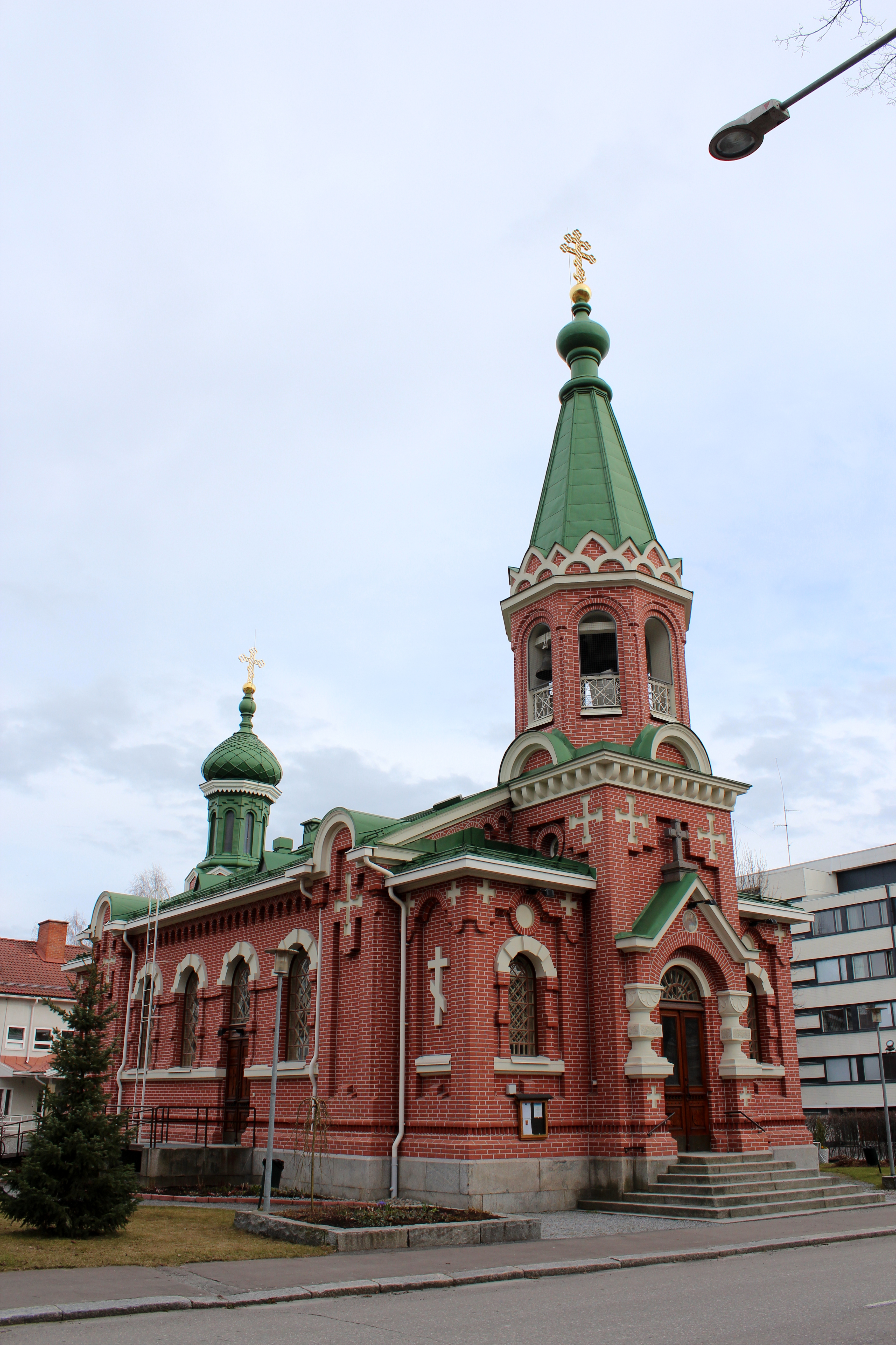 Saint Nicholas Cathedral in Kuopio, Finland